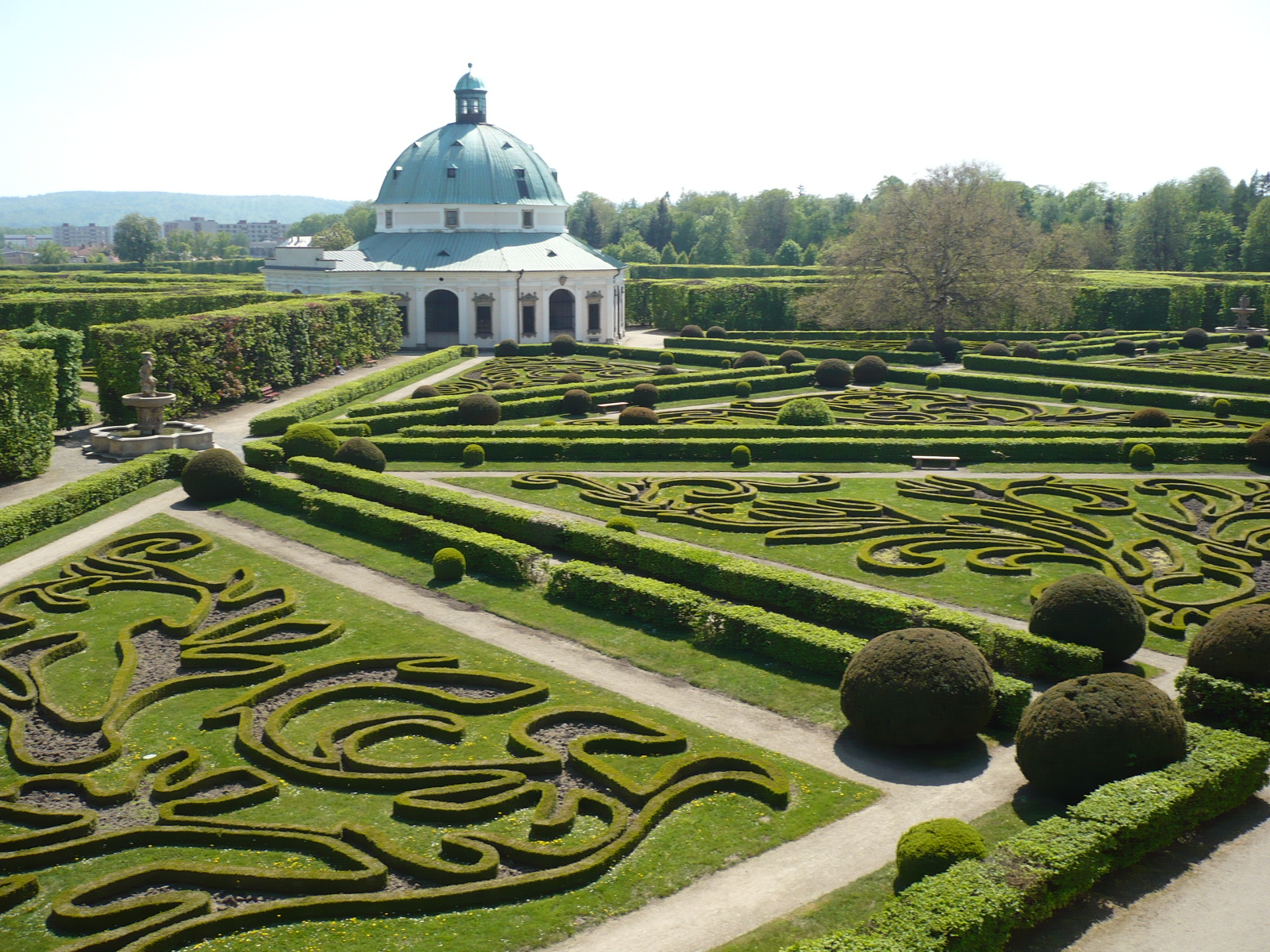 Kromeriz - Kromeriz – Flower garden